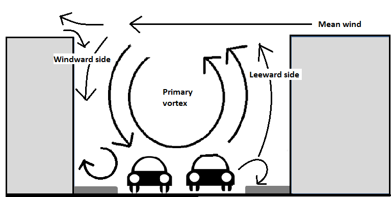 The effect of a street canyon on winds. The formation of a vortex inside the canyon when mean wind is perpendicular to the street.